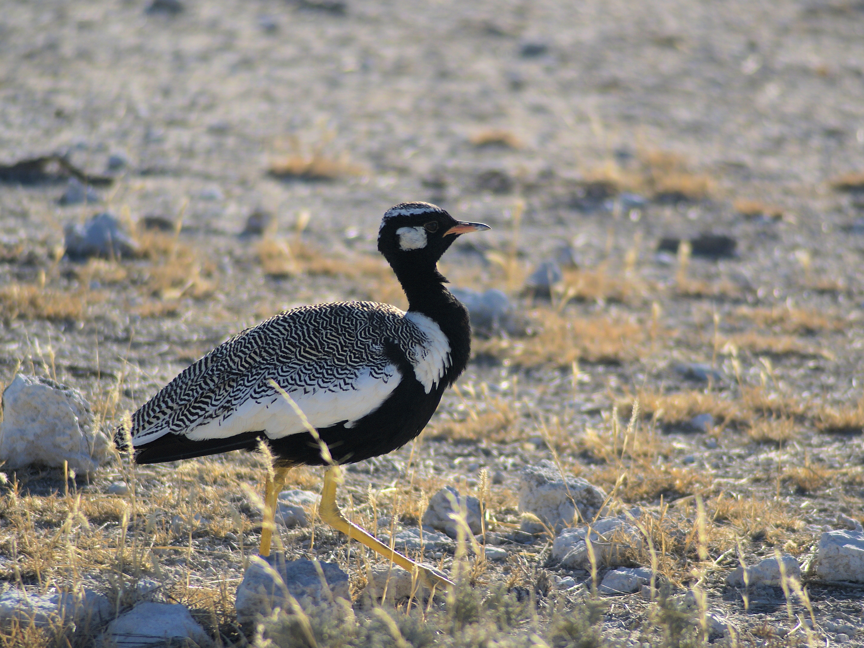 A male Northern Black Bustard in Etosha, Namibia. The depicted race occurs from northern Namibia to northern Botswana.